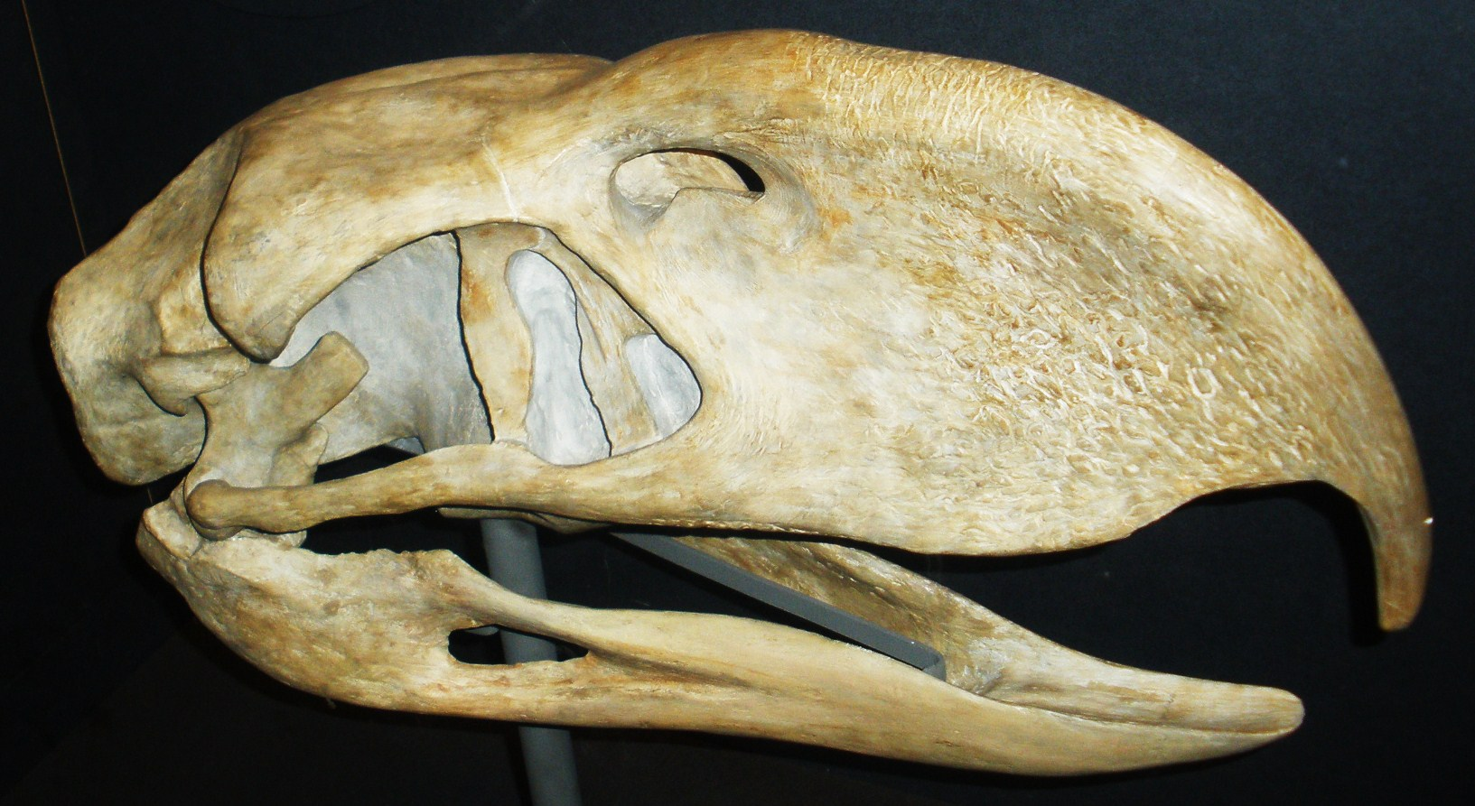 Fossil skull of the terror bird Phorusrhacos, picture taken at the Natural History Museum, London